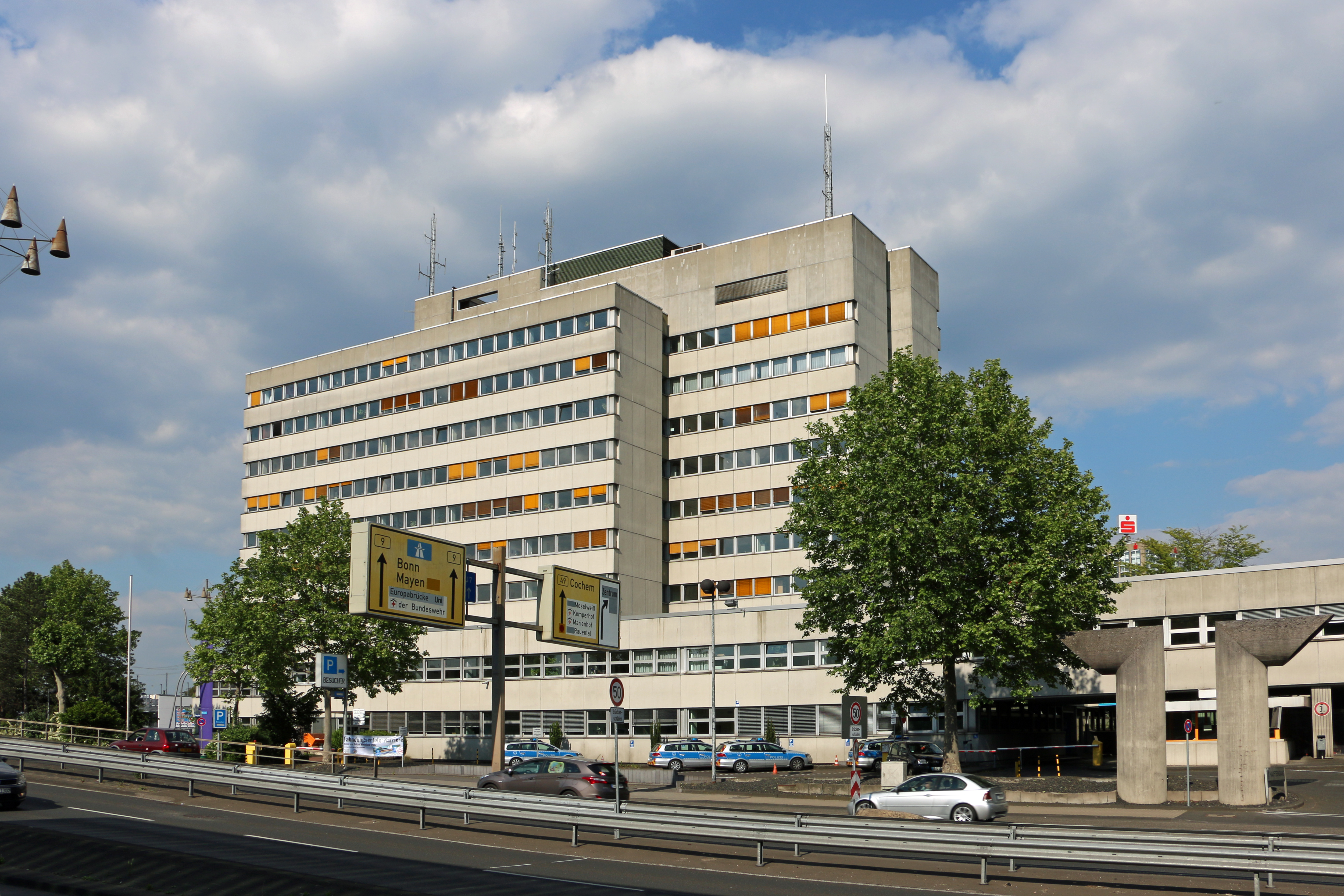 Police headquarter in Koblenz